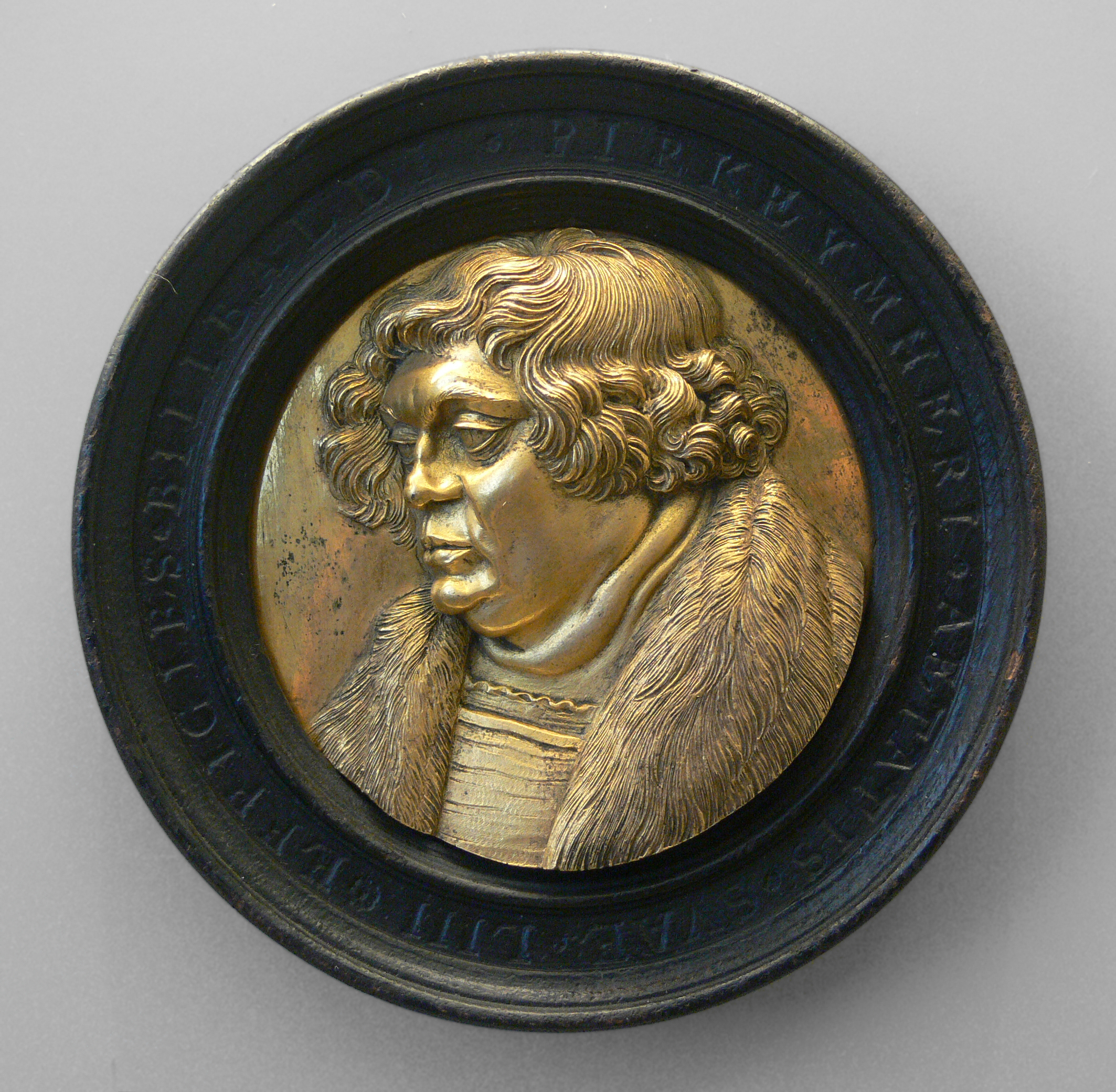 Georg Schweigger: Effigy of Willibald Pirckheimer, Nuremberg 1638, gilded bronze. Skulpturensammlung (inv. no. 5855, mentioned in the inventory of the princely „Kunstkammer“ collection in 1688), Bode-Museum Berlin.